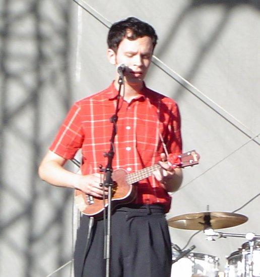 Jens Lekman playing at Accelerator The Big One in Stockholm, 2004.